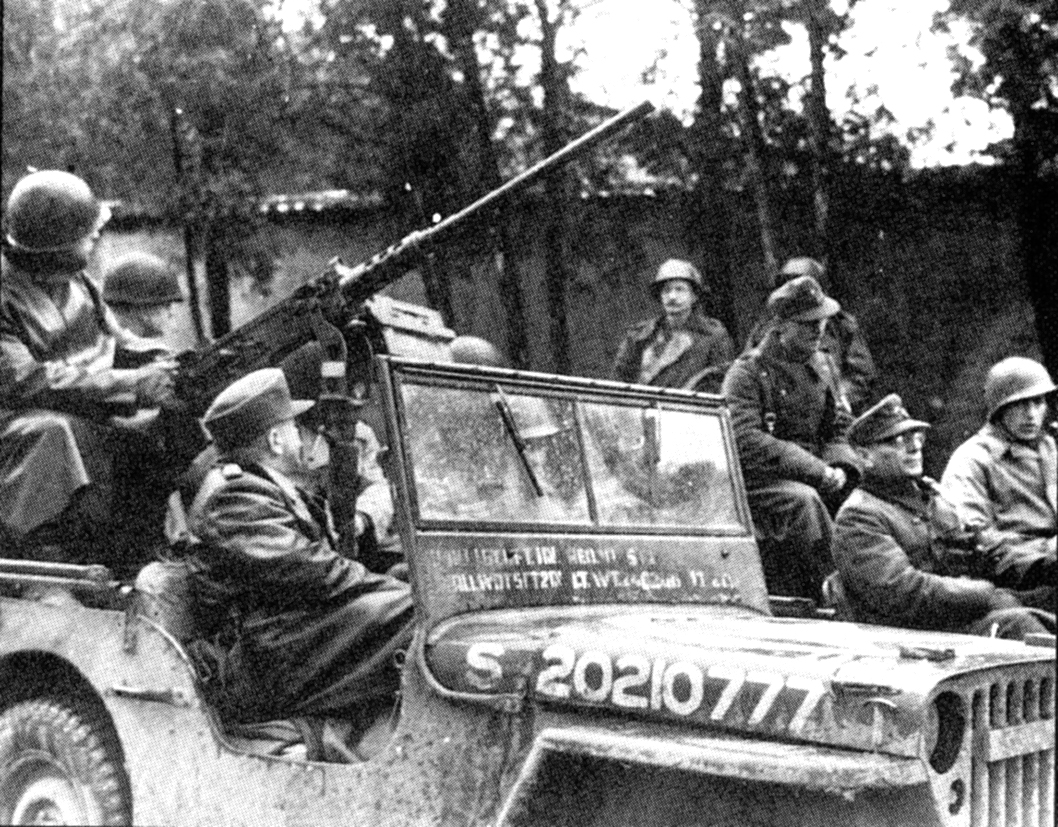 Two German officers of the Metz garrizon captured by Americans when tried to escape.